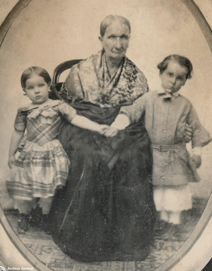 Casiana Cabral and Gutiérrez de Bárcena, wife of Joseph Belgrano, along with their grandchildren.